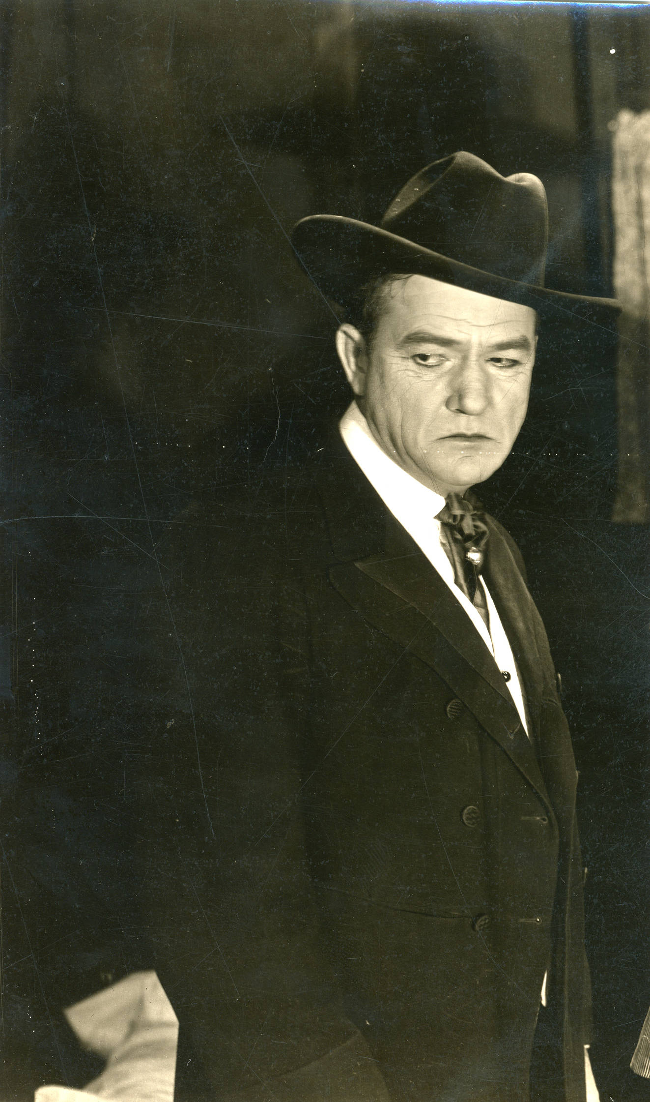 Silent film actor James Farley (1882 – 1947). Subjects: actors